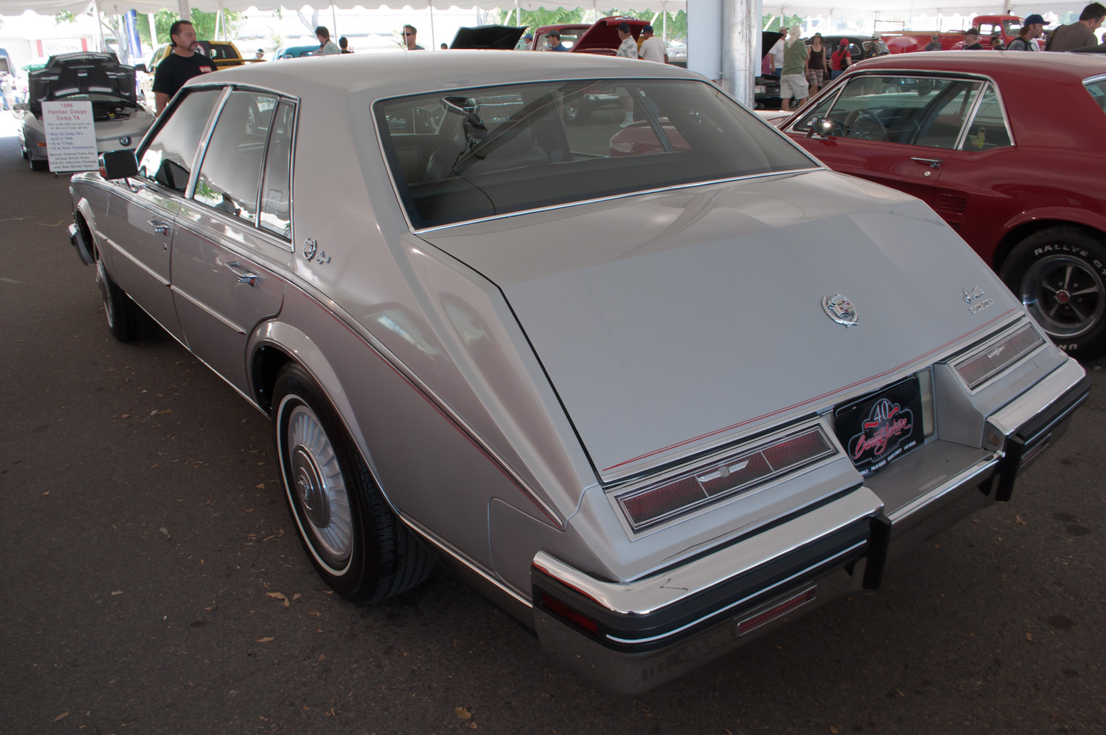 Offered for sale at Barrett-Jackson Auto Auction, Costa Mesa, California. The 1980-1984 Cadillac Seville was distinguished by its sloping trunk lid, as seen here. This one-owner 1984 model vehicle was garaged and rarely driven, so its interior is impeccable. It had regularly been started, however, to keep the mechanicals in good order. It comes with the 4.1L V8 engine commonly seen in Cadillacs of that era.